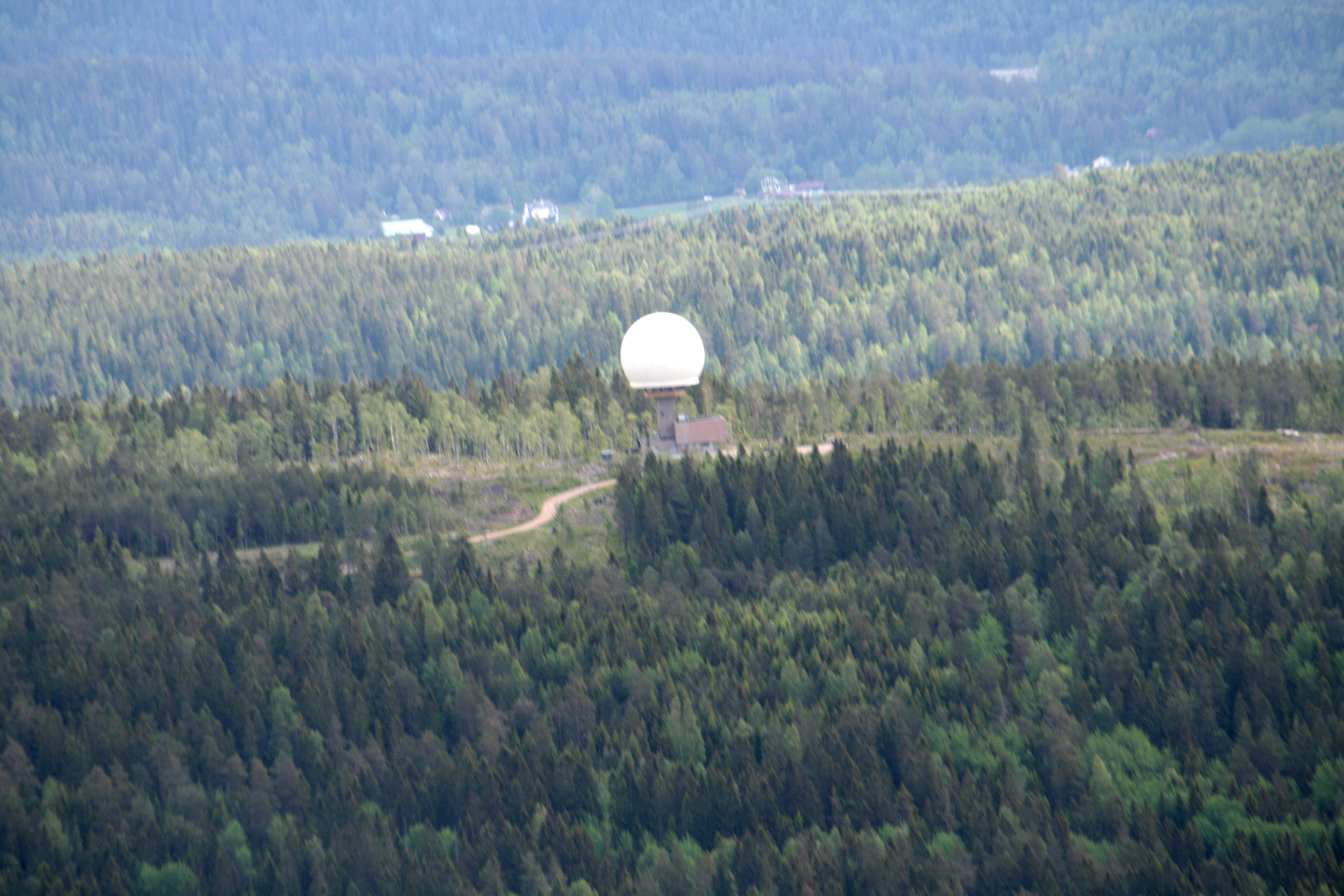 Aerial photograph from June 14th, 2015. The forests east of Oslo with the aviation radar at Haukåsen hill.